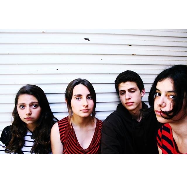 the 4 of them